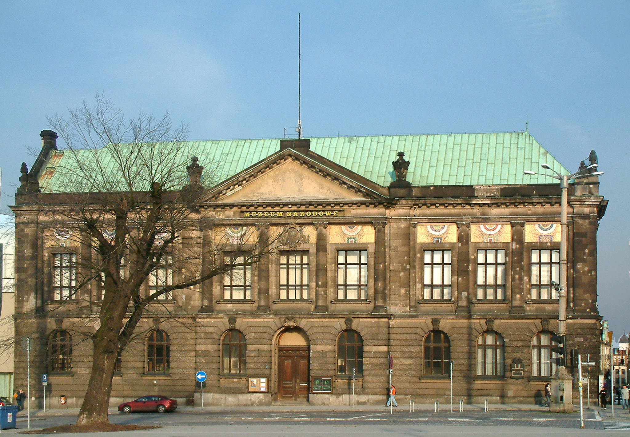 National Museum, Gallery of painting and sculpture in Poznań, Poland. The building was constructed in 1904.